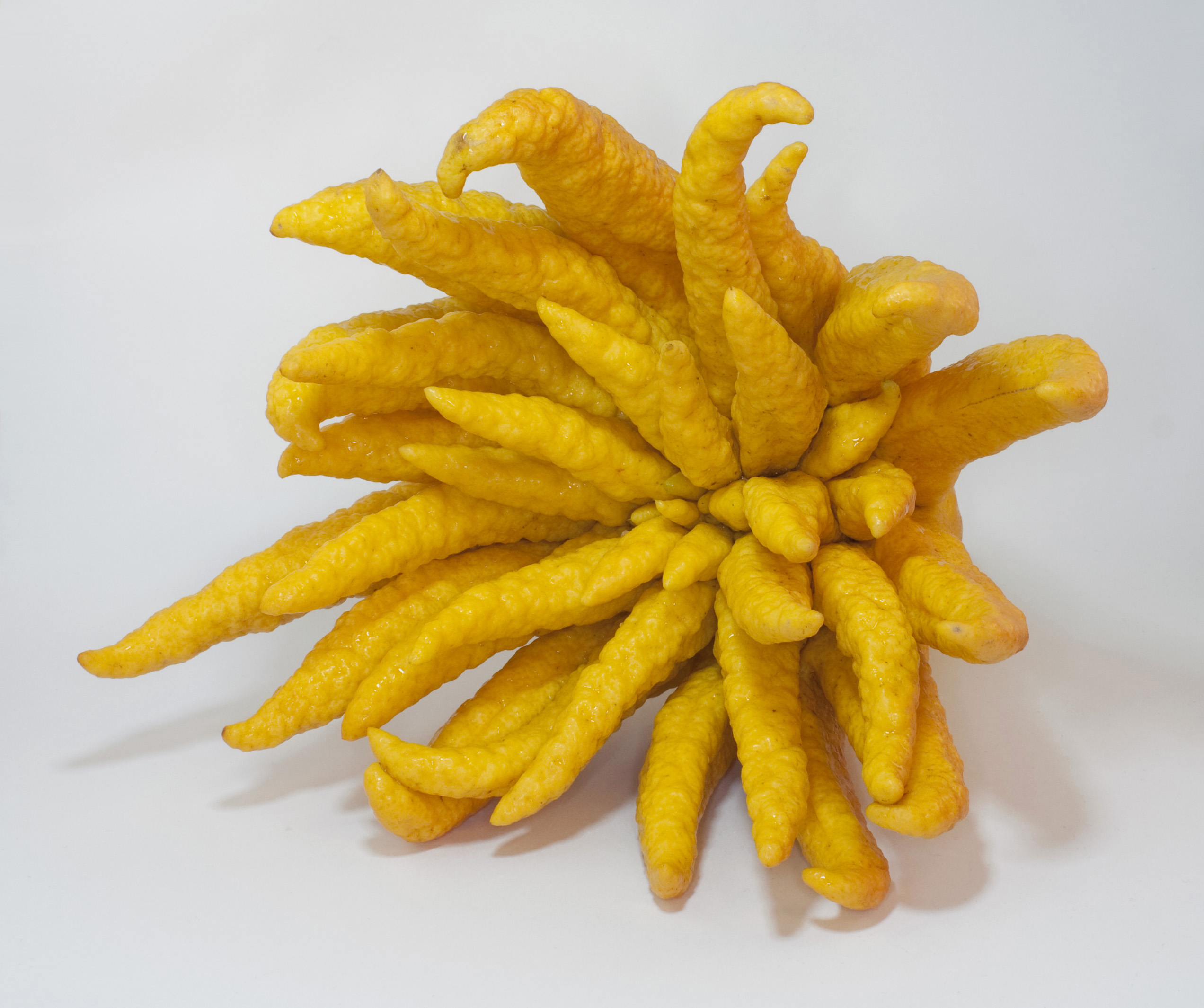 Buddha's hand fruit